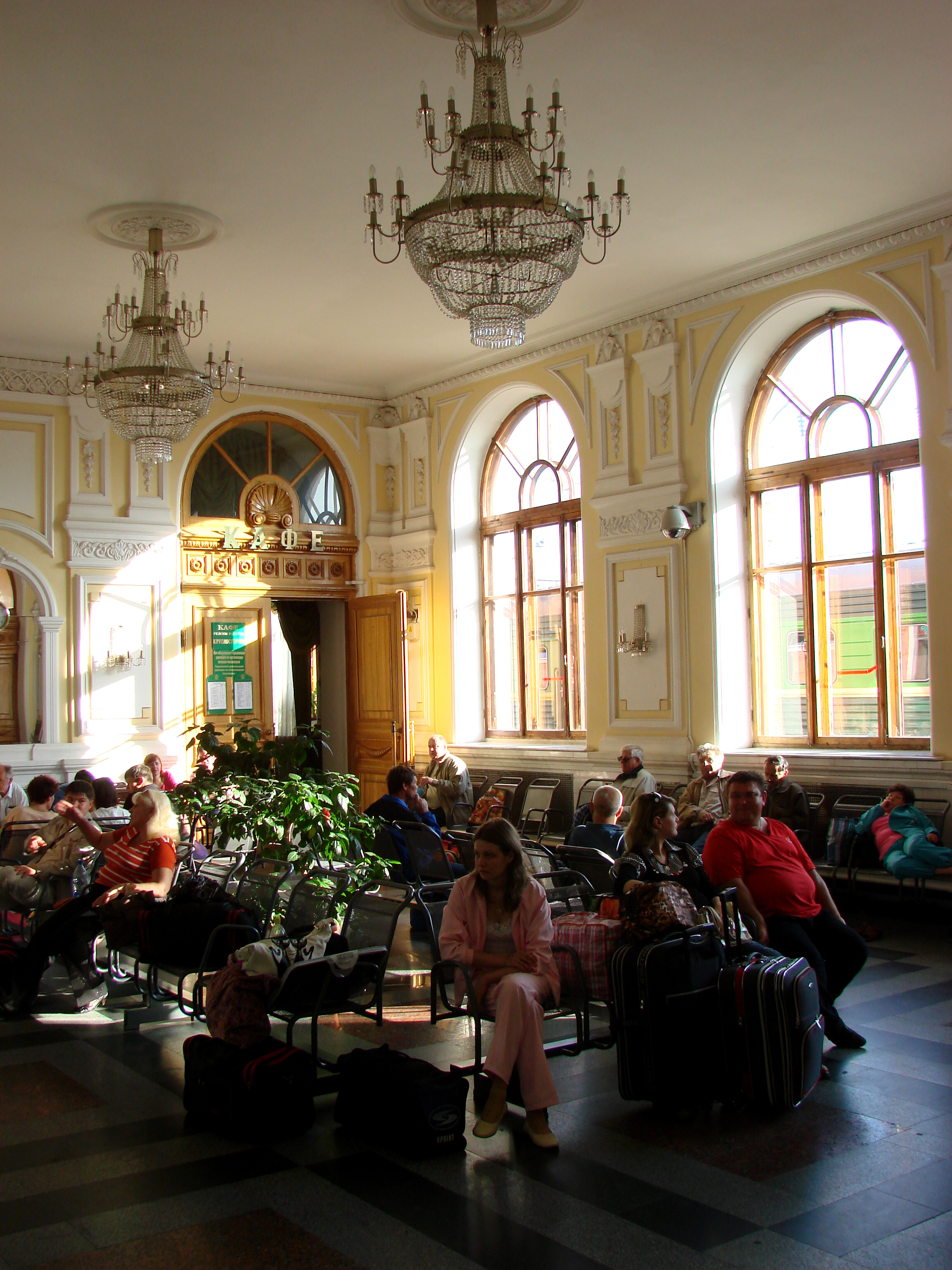 Train station waiting room, Kazan, Russia. June 2008.